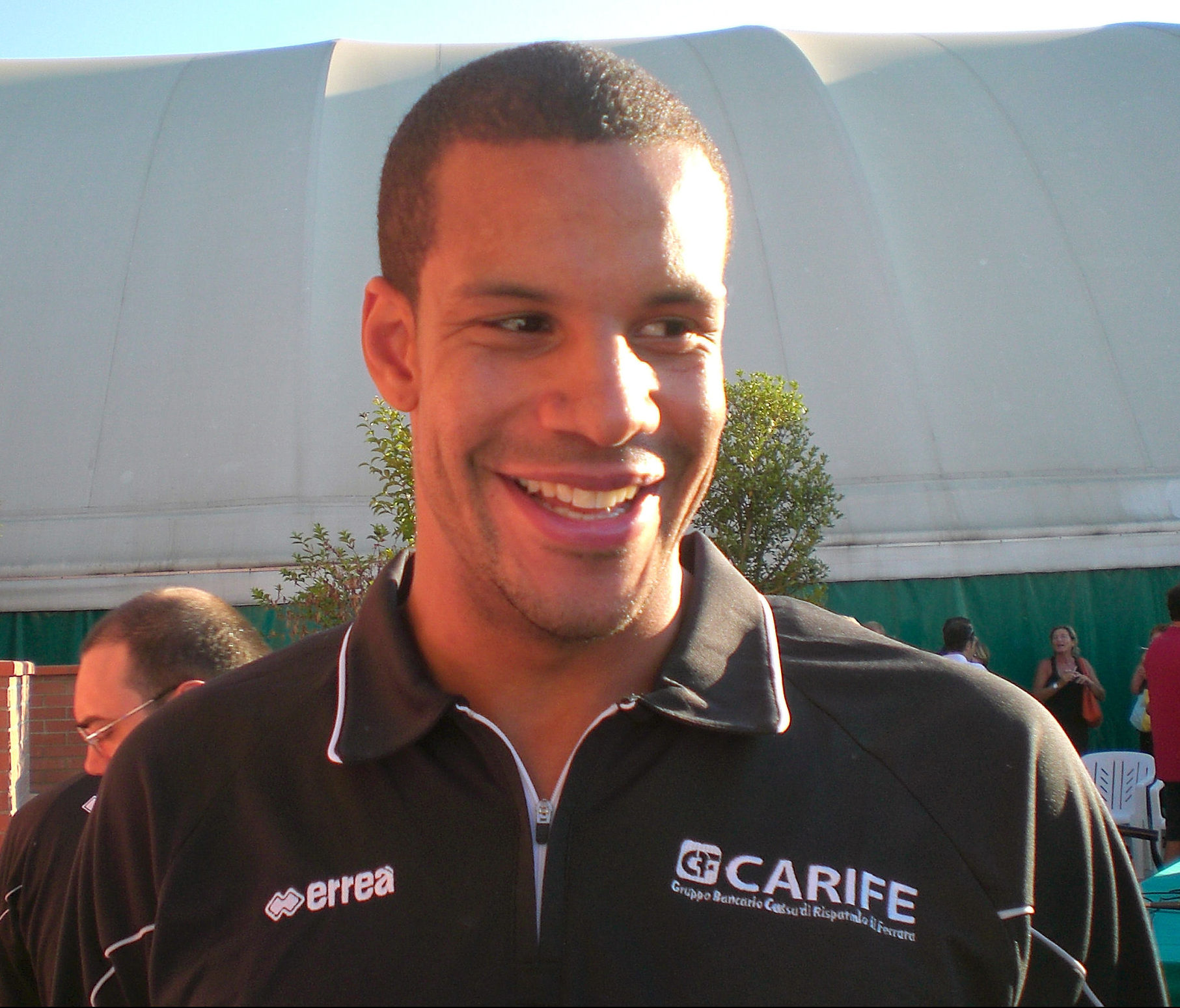 Basketball player Oluoma Nnamaka.